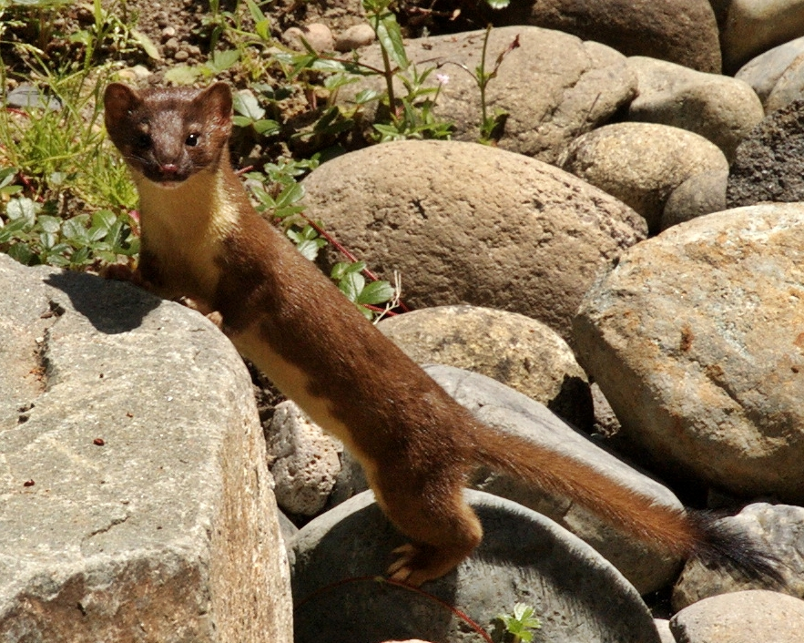 We discovered this beautiful little long-tail weasel after she (we think it's female) killed a large rabbit and was dragging it to her den. She posed nicely for the photograph.